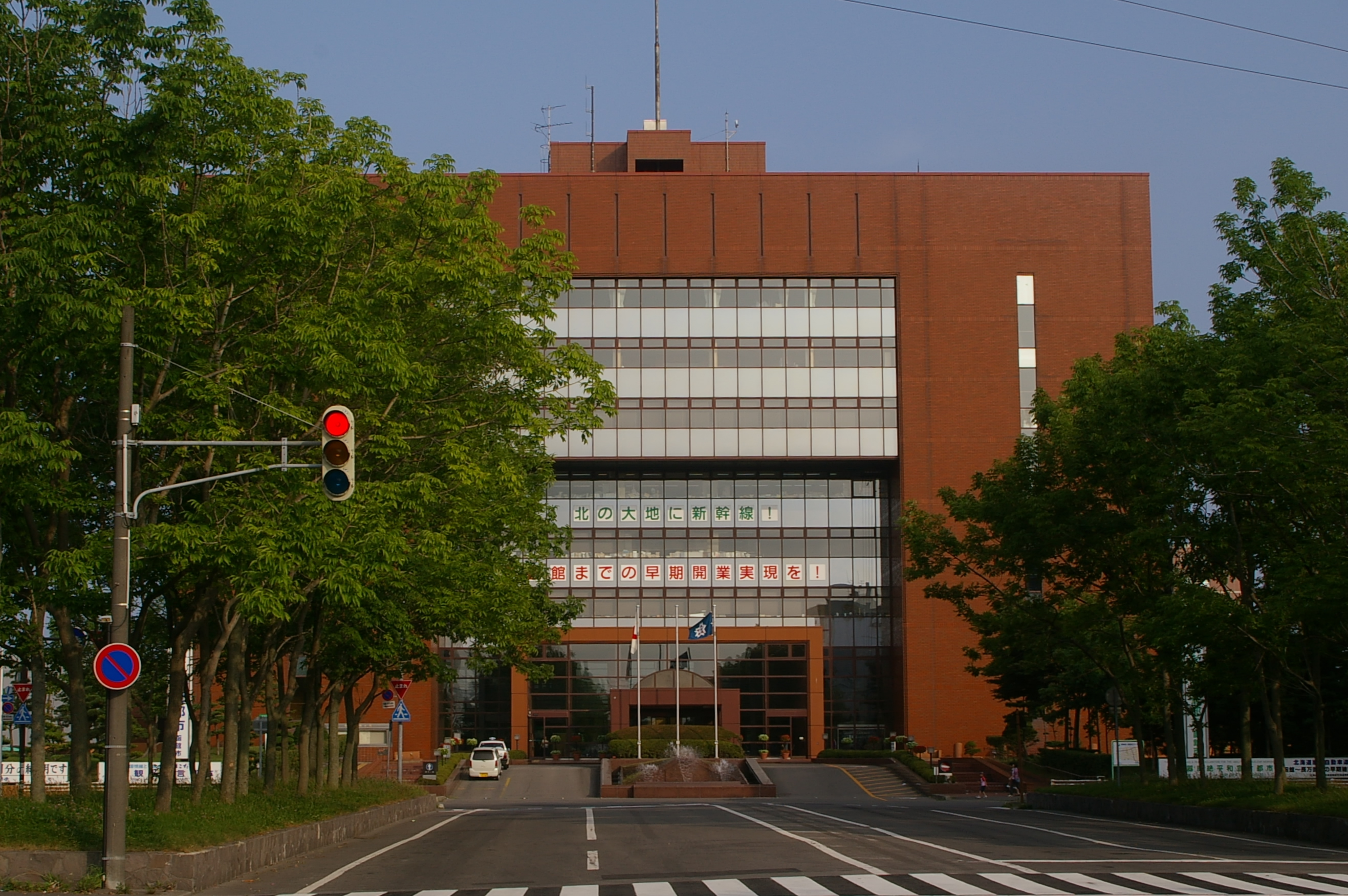 Photograph of Hakodate City Hall in Hakodate, Hokkaido, Japan.